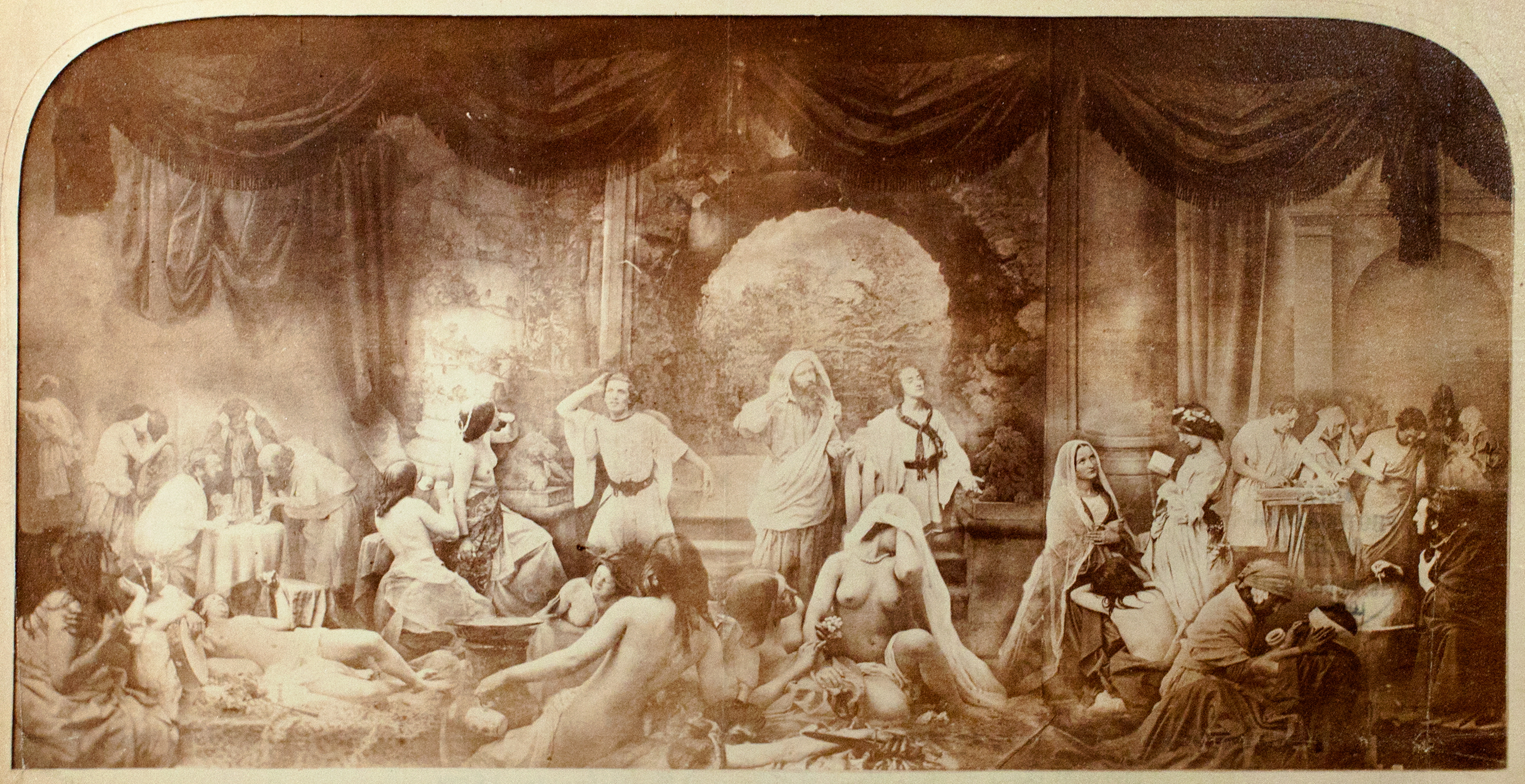 In 1857 he made his best-known allegorical work, The Two Ways of Life. This was a seamlessly montaged combination print made of thirty-two images in about six weeks. First exhibited at the Manchester Art Treasures Exhibition of 1857, the work shows two youths being offered guidance by a patriarch. Each youth looks toward a section of a stage-like tableaux vivant - one youth is shown the virtuous pleasures and the other the sinful pleasures.